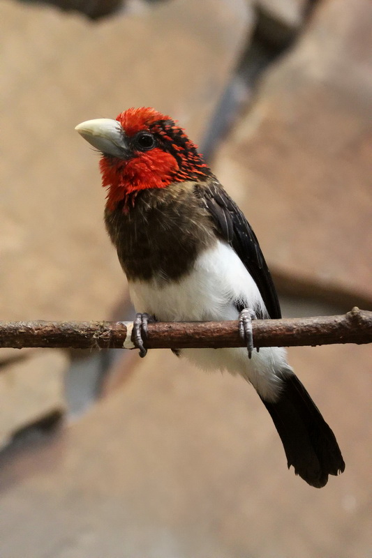 Brown-breasted barbet, Hamburg zoo